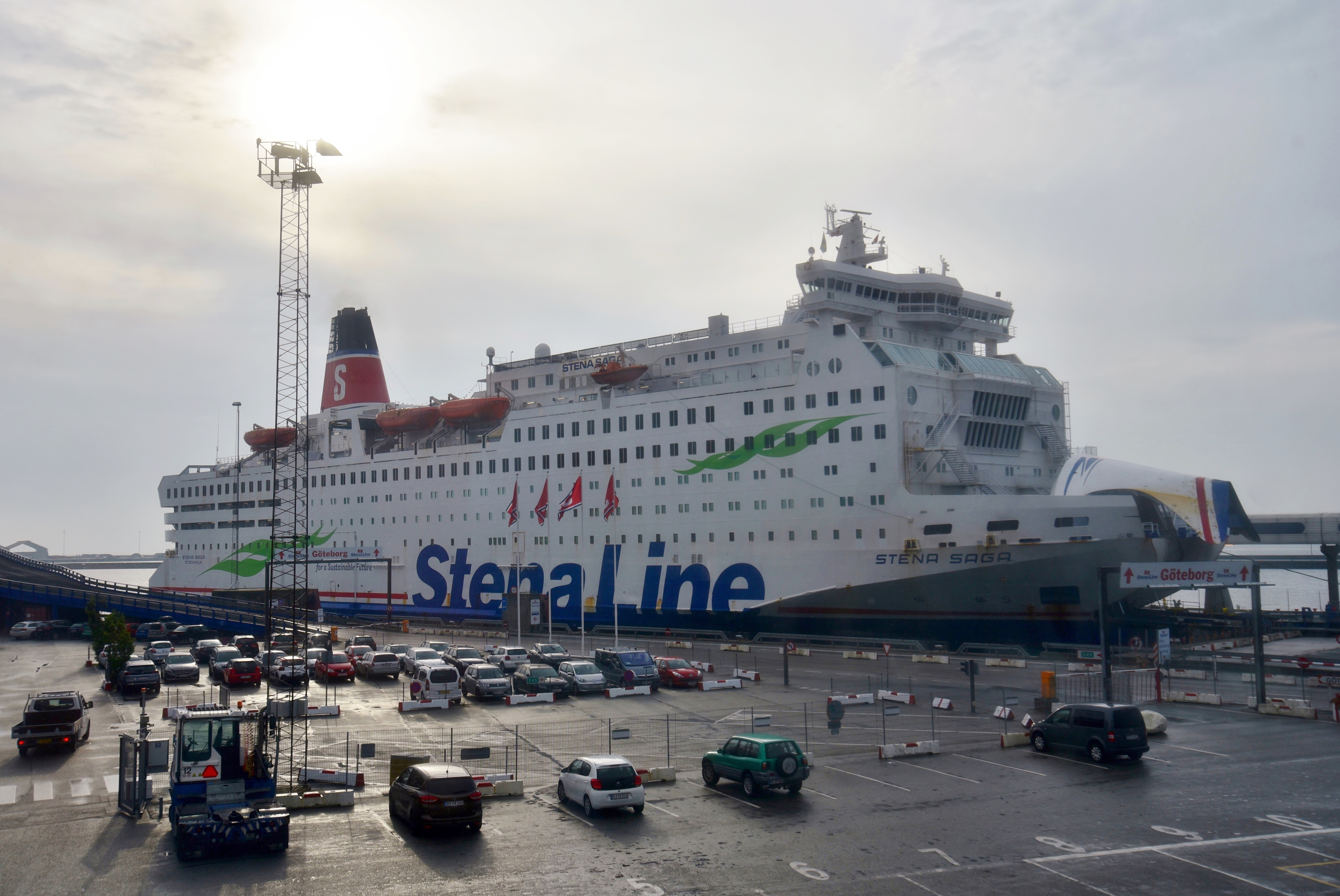 View of the ferry MS Stena Saga